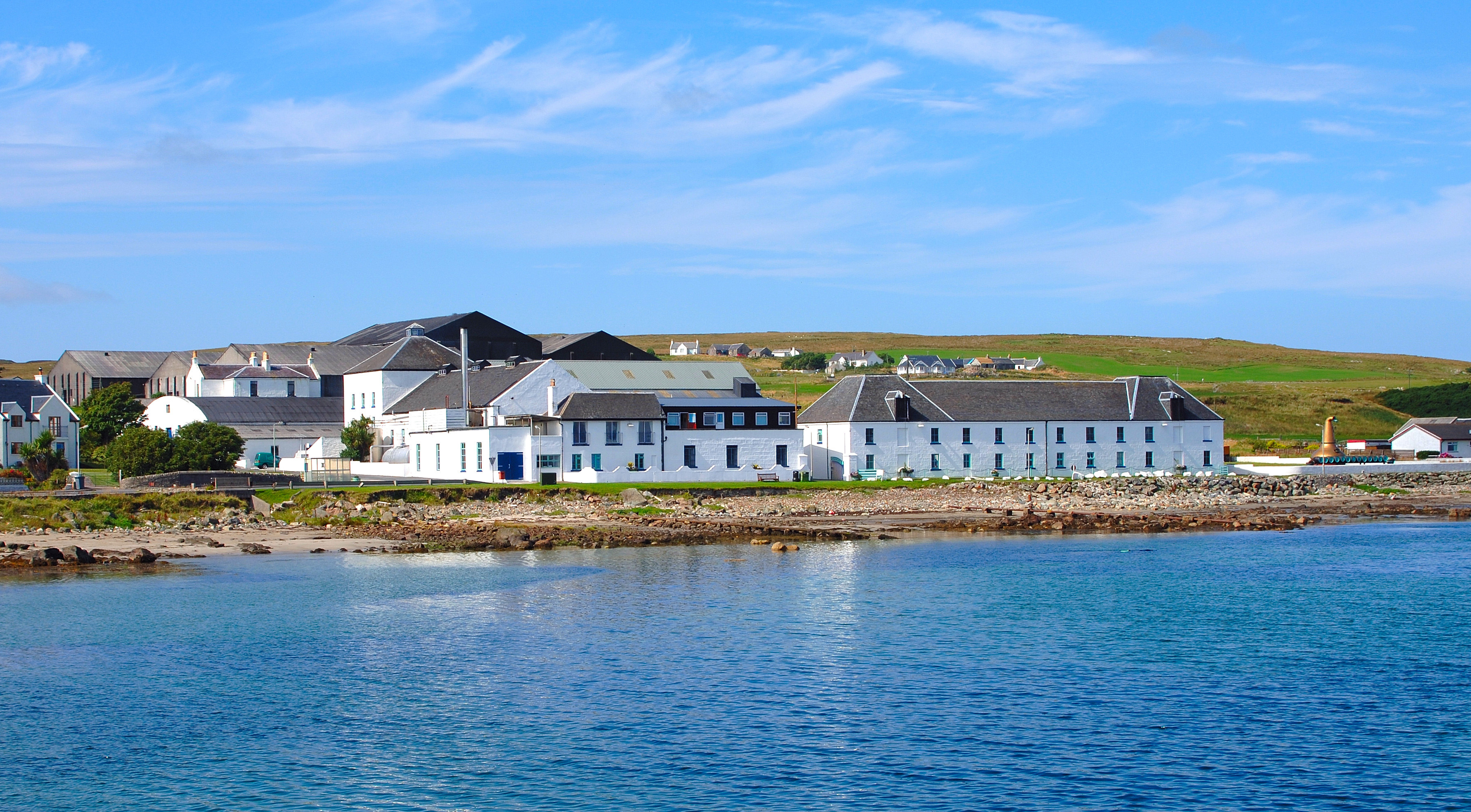 View of Bruichladdich Distillery